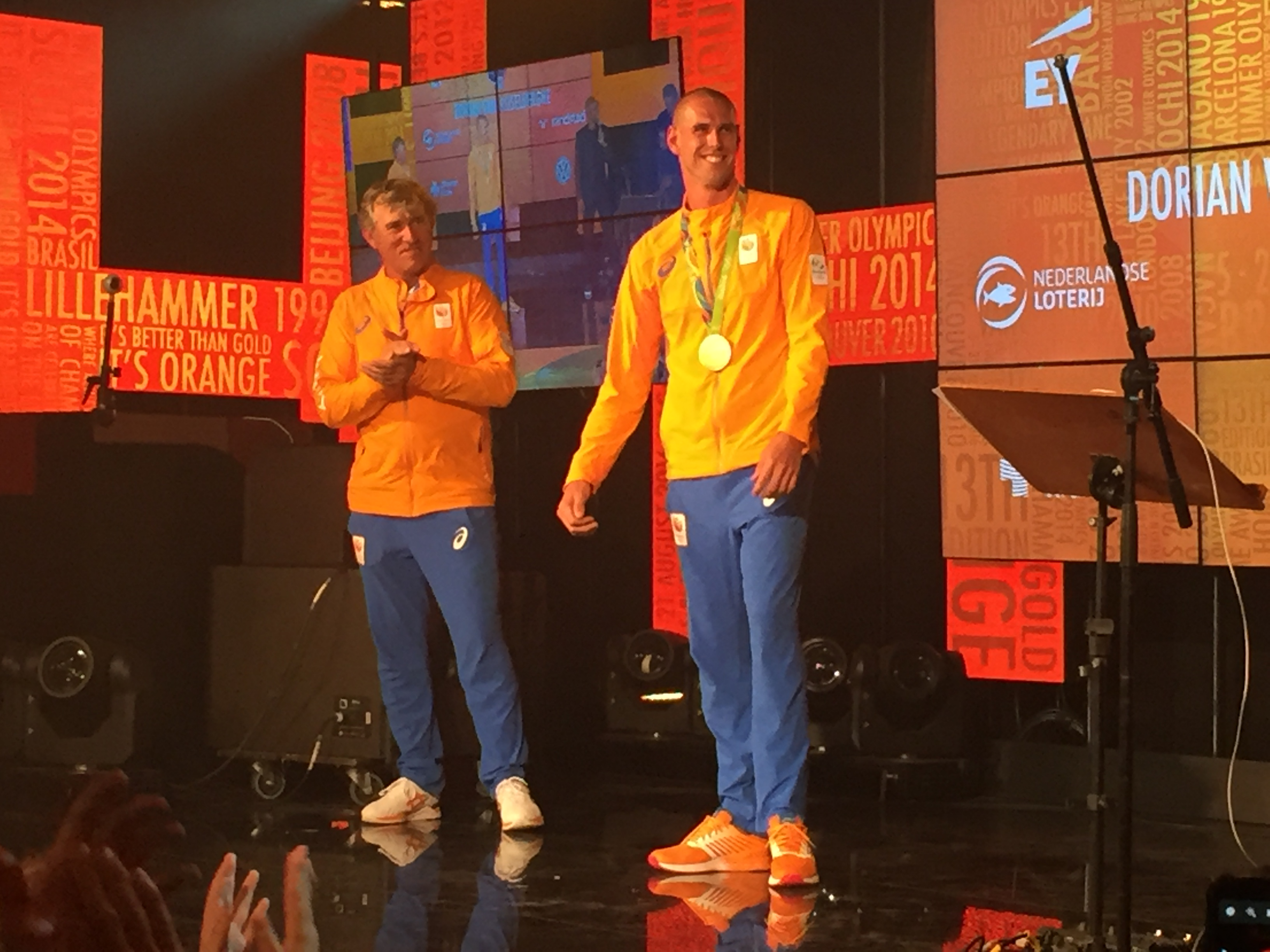 Rio 2016 Summer Olympics